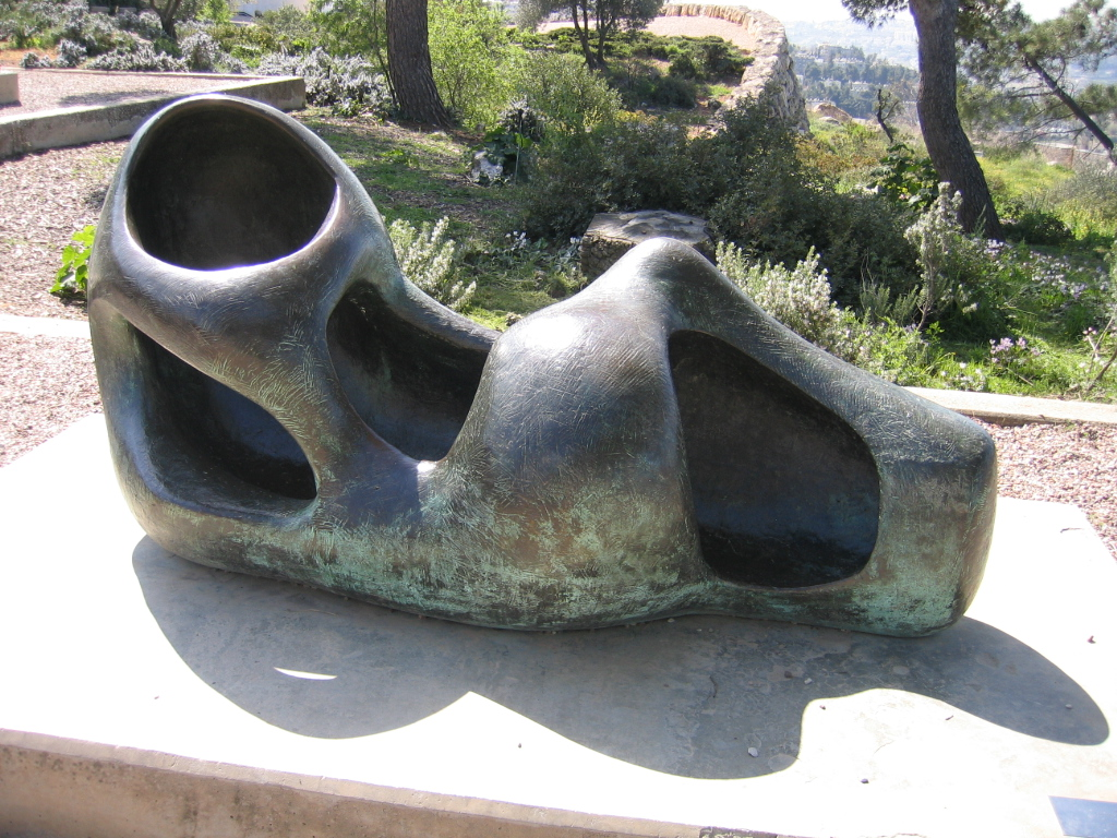 henry moore's "reclining figure:external form", 1953-1954 at the israel museum, jerusalem. foto by yair talmor, 2006